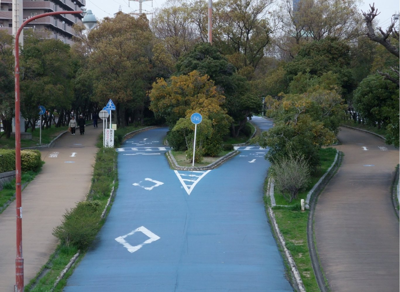 Onogawa walk,Nishiyodogawa-ku,Osaka,Japan